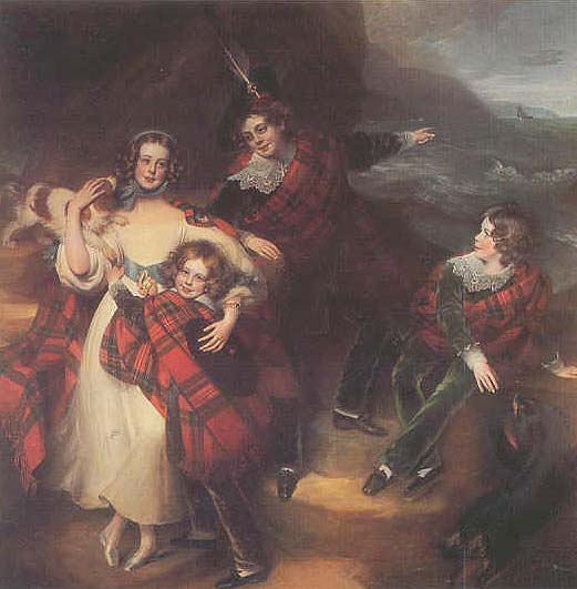 the children of George Spencer-Churchill, 6th duke of Marlborough